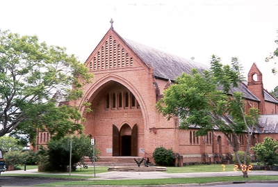 Christ Church Cathedral, Grafton: Cathedral Church of Christ the King